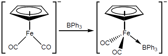 M-Z reaction